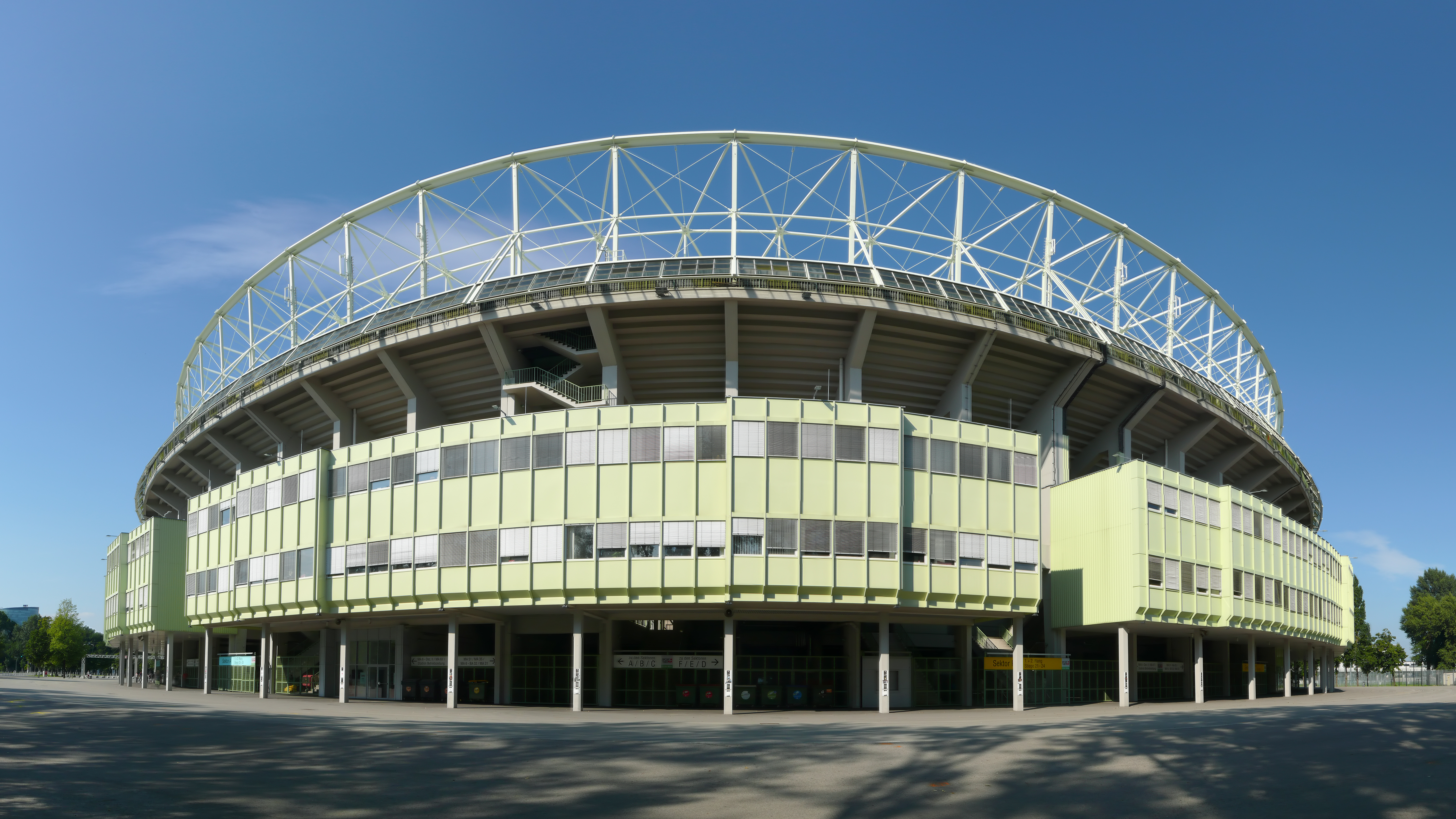 Stadium Ernst-Happel-Stadion in Vienna Leopoldstadt